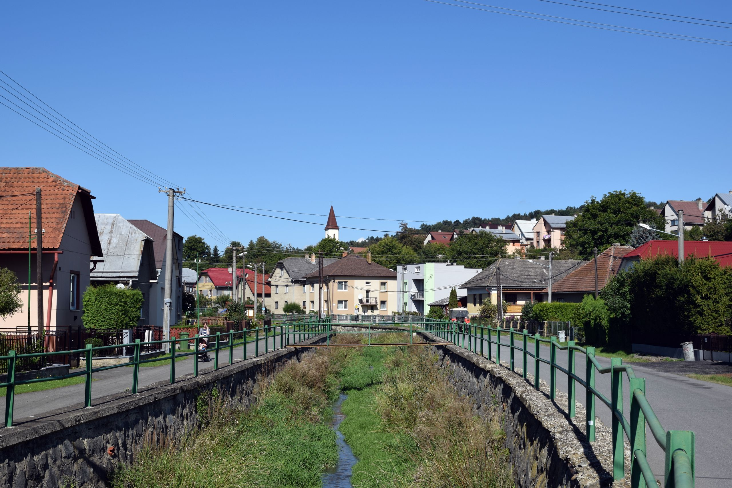 Richvald, center